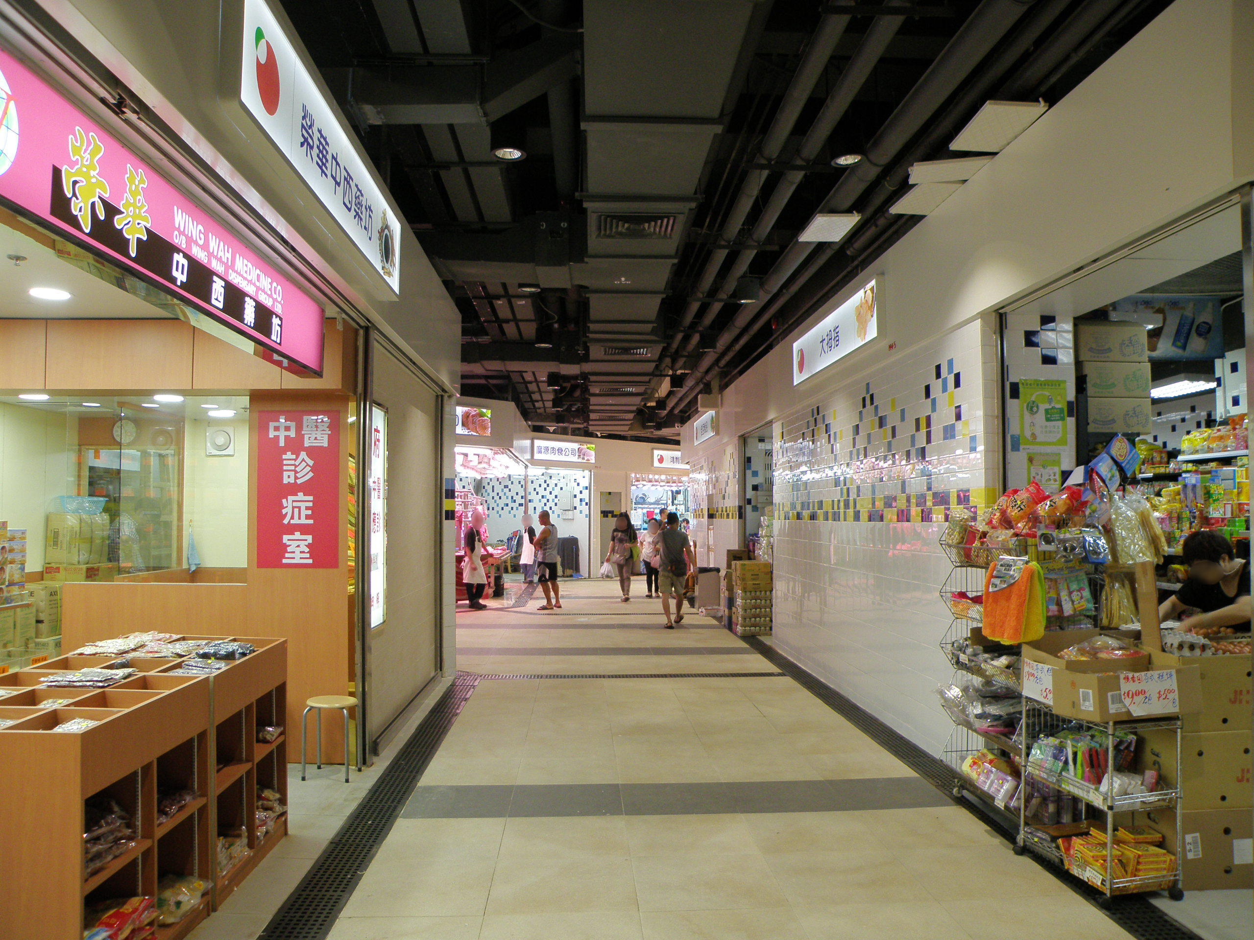 Belvedere (Allmart) Chinese Market in Tsuen Wan, Hong Kong.